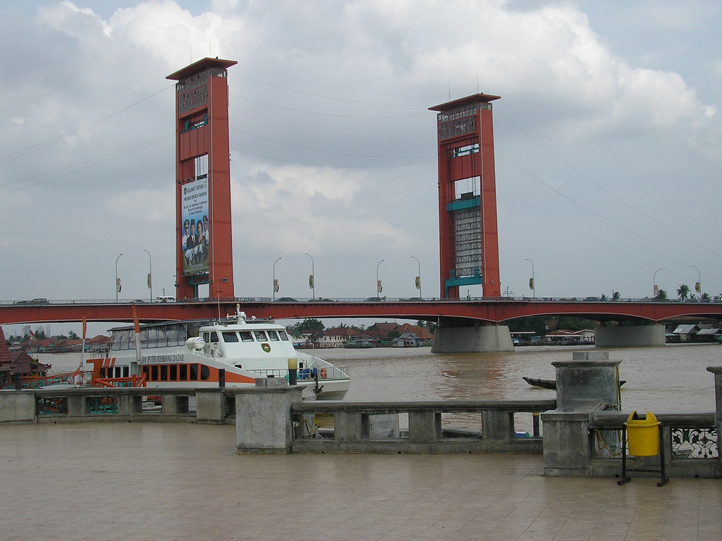 Another angle of Ampera Bridge, Palembang.